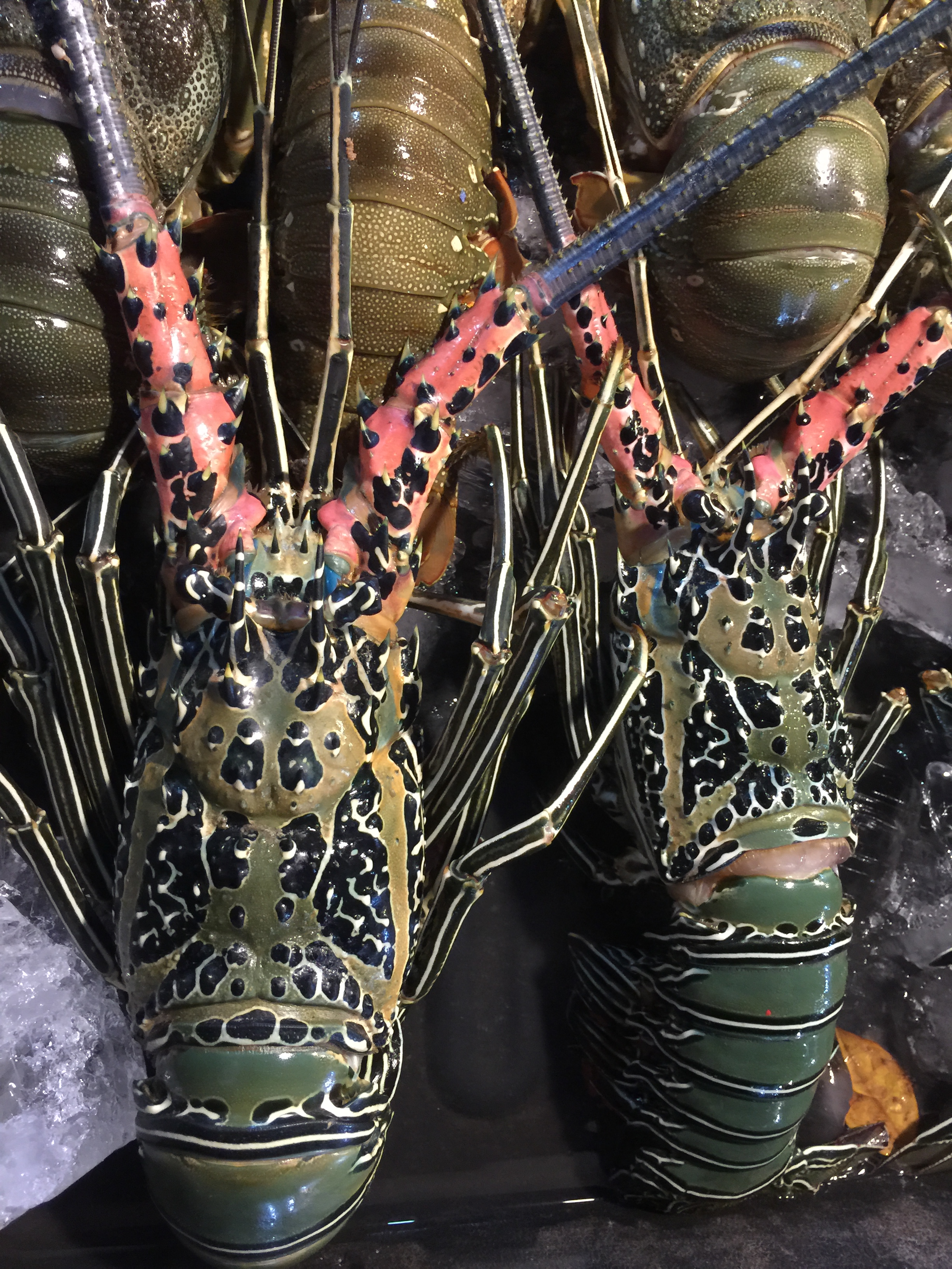 Lobster sold in a wet market in KK Sabah